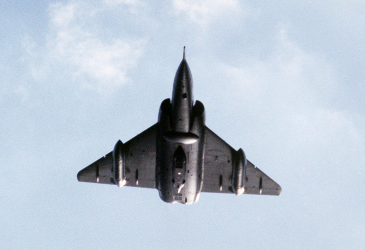 A French Air Force Dassault Mirage IV A aircraft from Escadron de bombardement EB 1/91 "Gascogne" (serial 31-BD) based at Base aérienne 118 Mont-de-Marsan, Landes, Aquitaine (France), in low-level flight in 1986.